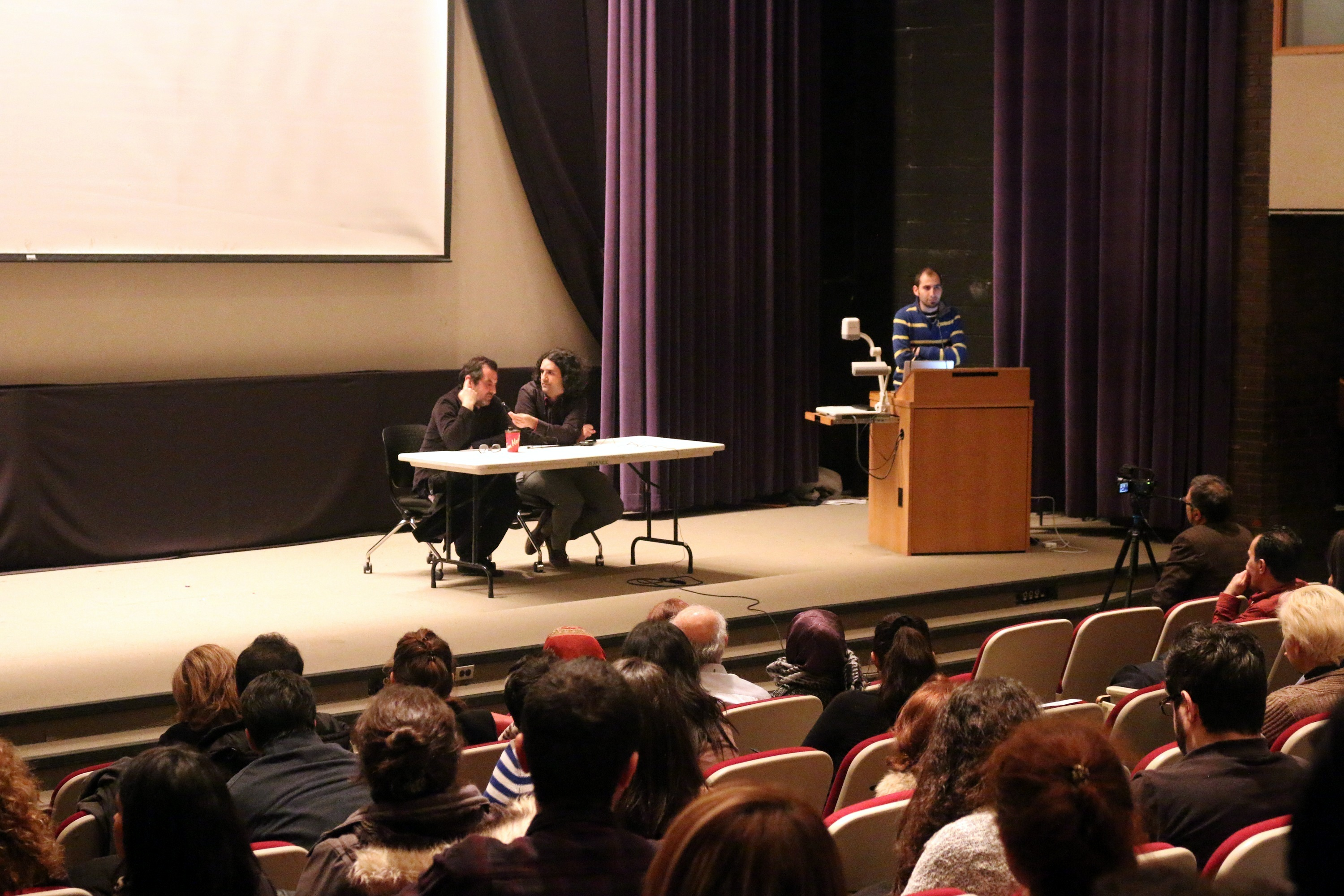 Safi Yazdanian (left), director of the film "What is the Time in Your World" at the Canadian premiere of the film. University of Toronto, 4th April 2015. Photo by Persian Dutch Network